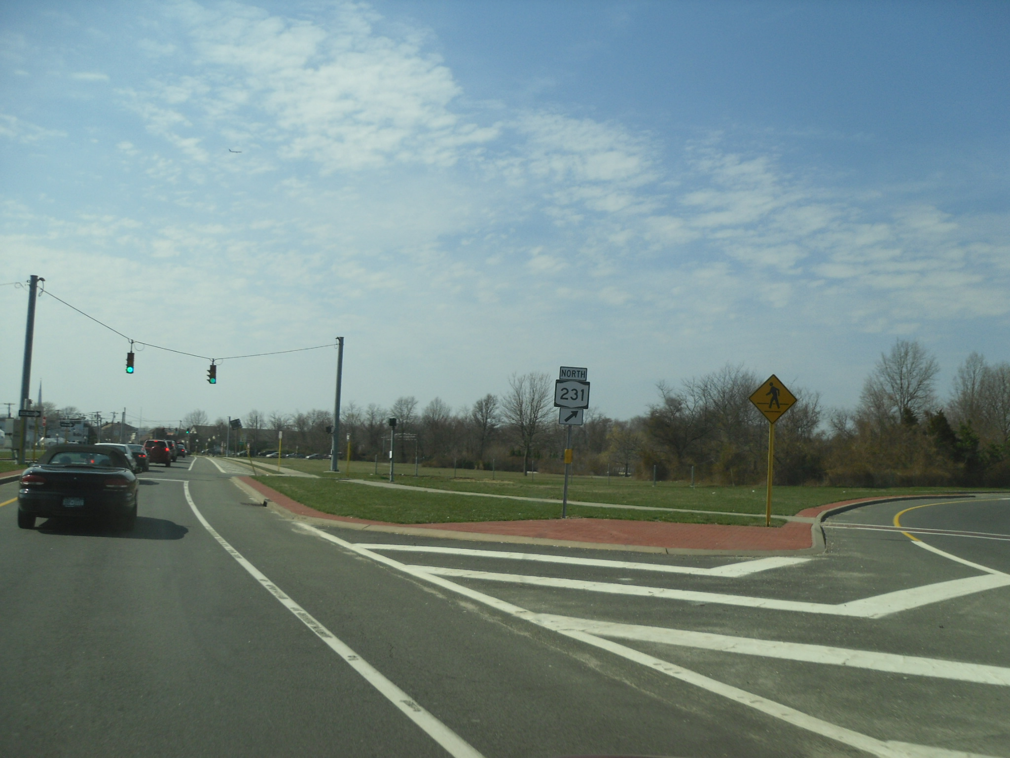 New York State Route 27A westbound at the junction with New York State Route 231 in Babylon, New York.